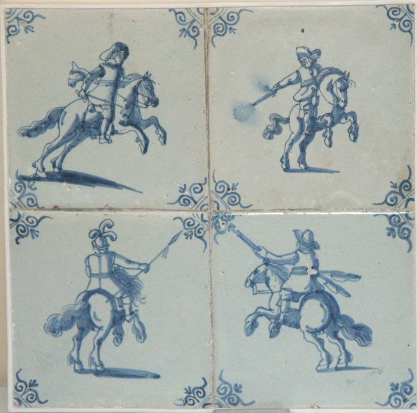 Decorated tiles showing armoured soldiers on horseback.